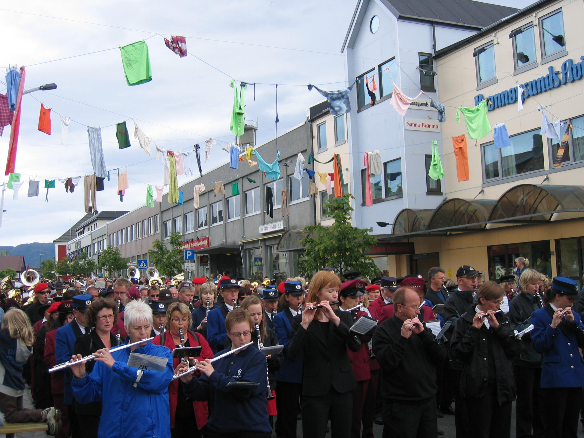 All bands marching together at the Torghatt festival, Norway i 2007.